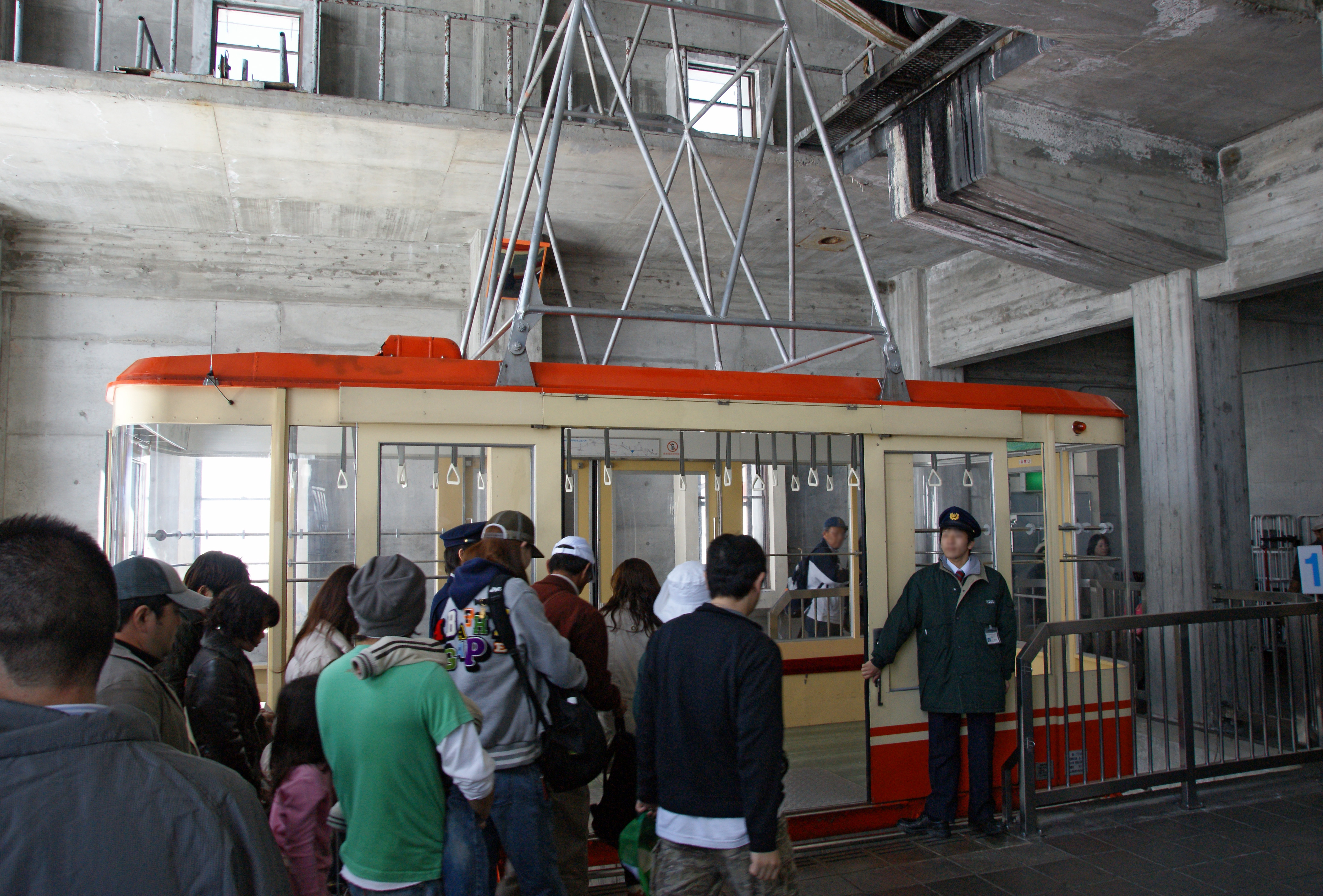 Tateyama Ropeway Kurobe-daira Station(1828m) in Toyama prefecture, Japan